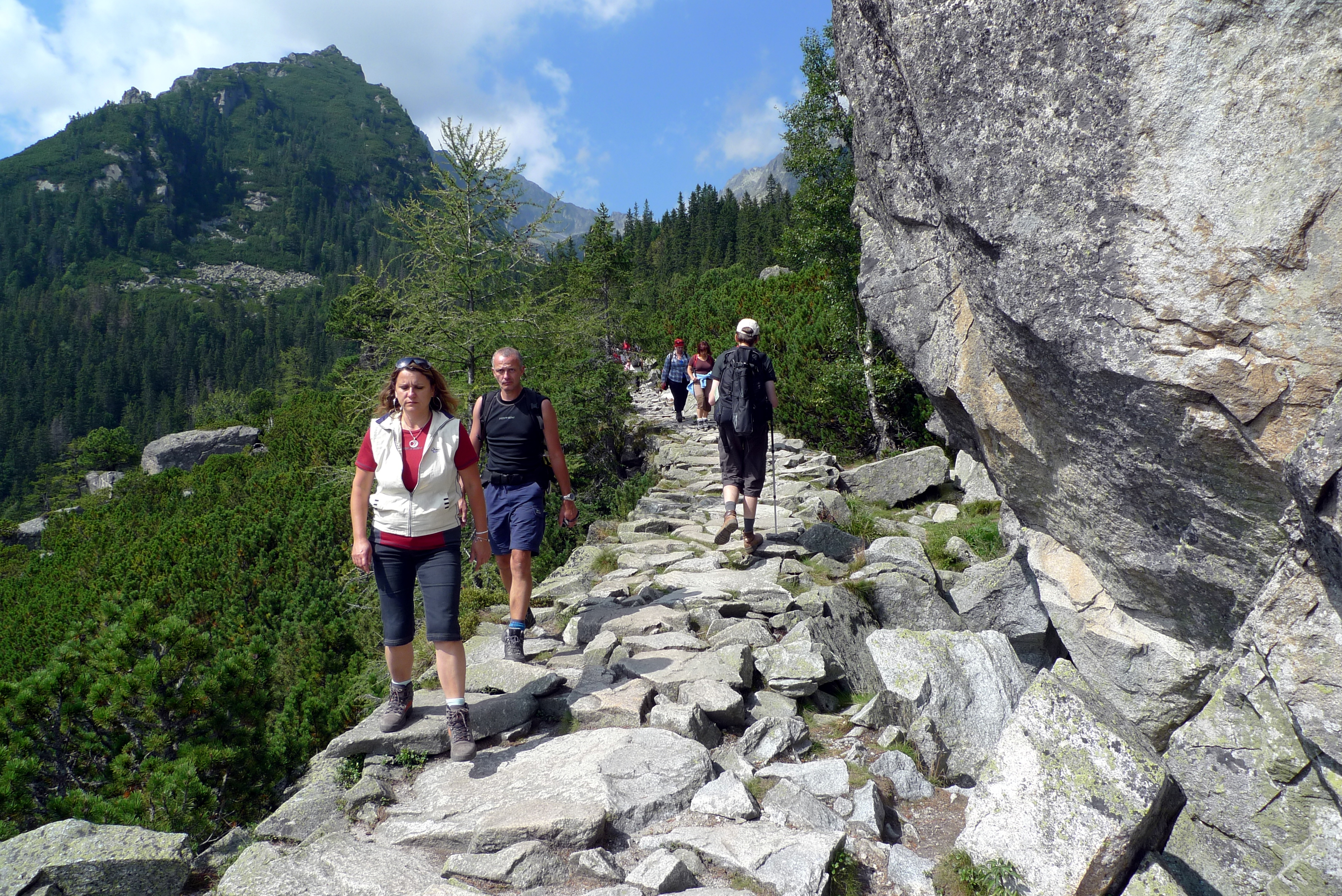 Tatranská magistrála foot track in Vysoké Tatry Mountains